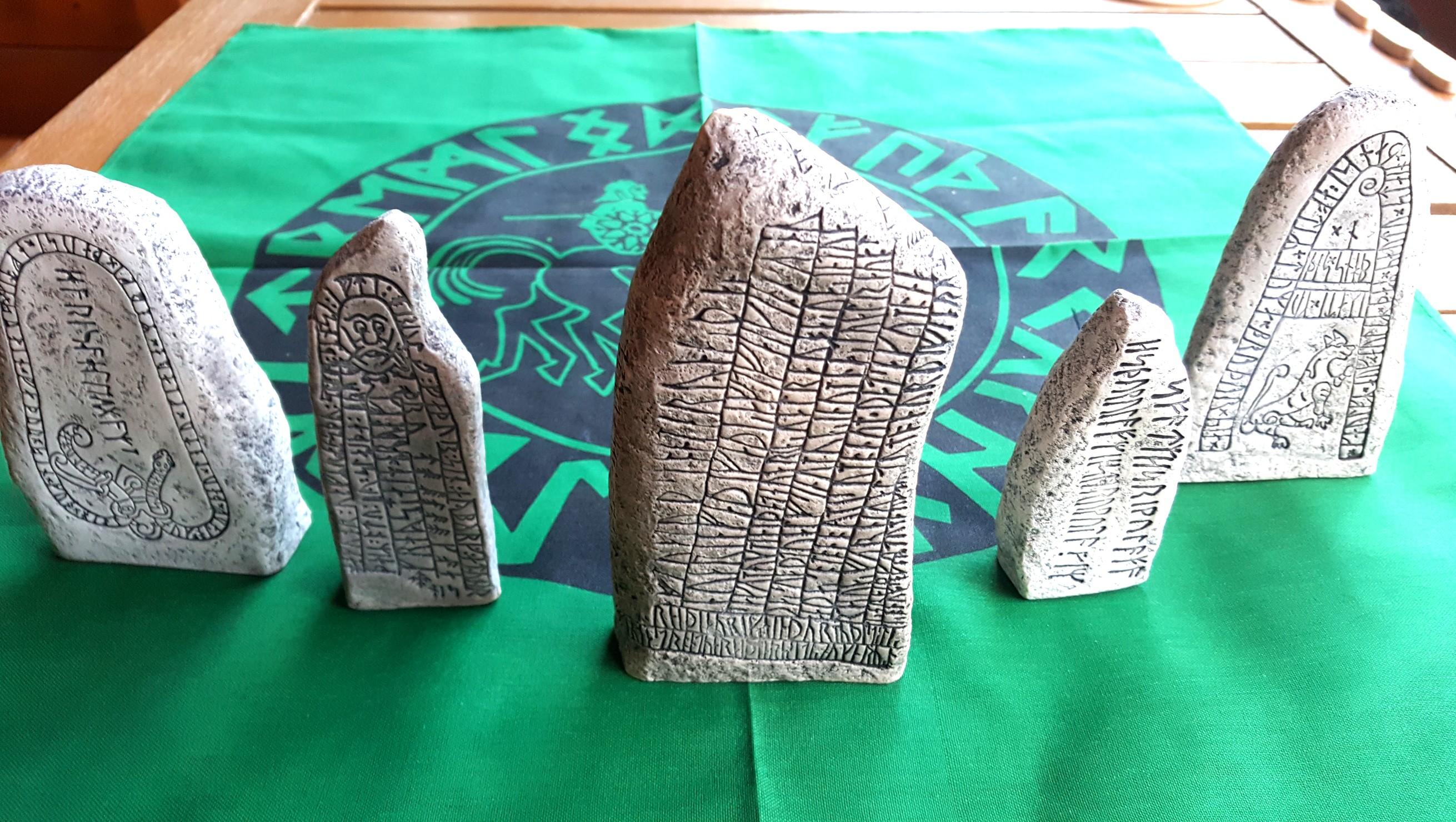 Copies of the Swedish runestones from Skåäng, Släbro, Rök, Istaby and Skårby (left to right). Height of the runestones 9.5 (Istaby Runestone) to 15 centimetres (Rök Runestone). The rune stones are made of artificial stone.